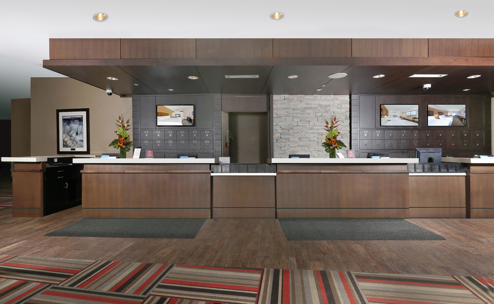 Four Points Sheraton Fallsview Lobby